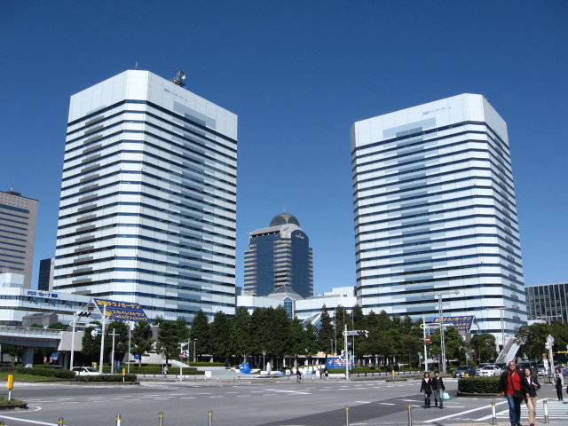 Makuhari techno garden. photograph it from the JR Kaihimmakuhari station square.